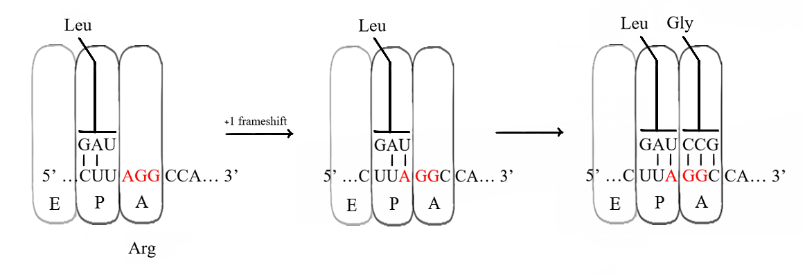 +1 translational frameshift mechanism, where ribosome with single tRNA pauses for a rare tRNA and reading frame shifts +1 before continuing translation